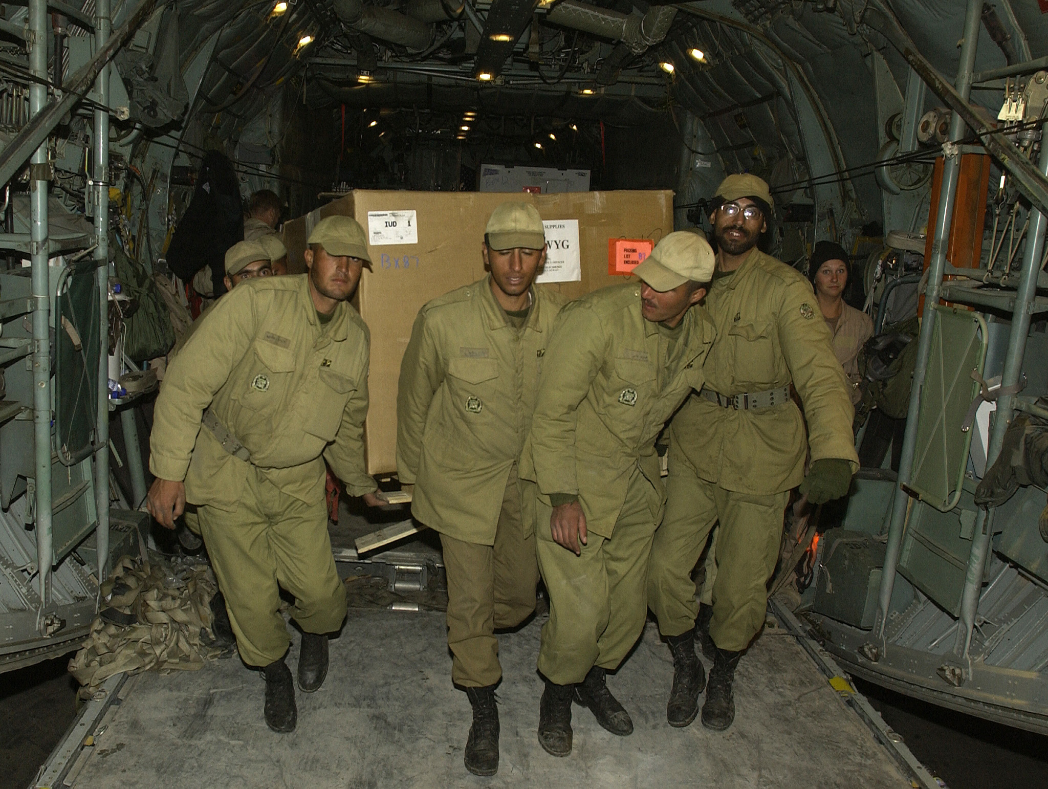 Iranian soldiers carry off a pallet from a U.S. Central Air Forces C-130 on the airfield at Kerman, Iran, on Dec. 28, 2003. The C-130 crew flew in five pallets containing 20 thousand pounds of medical supplies from logistical bases within the region into Kerman two days after a devastating earthquake destroyed the city of Bam, Iran.